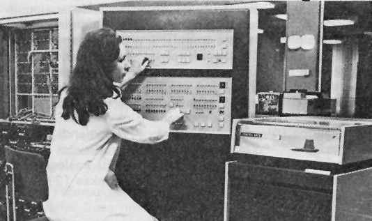 This is the CPU of CER-12 computer from M.Pupin Institute in Belgrade, Serbia. The photos was made and edited by me, on Sept.12th 1971. in MP Institute. See also